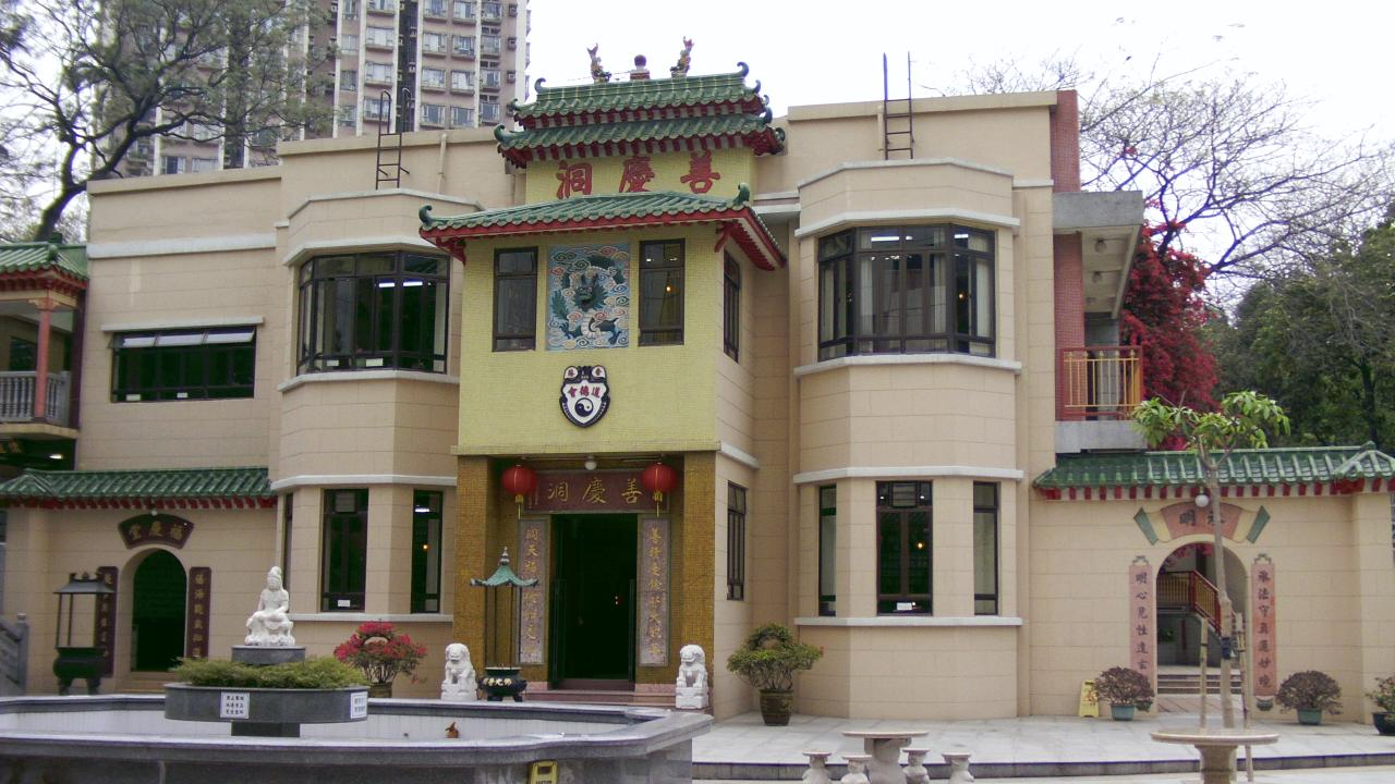 Main_Hall_of_Tuen_Mun_Sin_Hing_Tung 中文（香港）: 屯門善慶洞的主殿